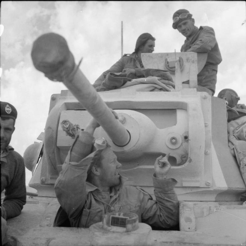 The British Army in North Africa 1940 The driver of a Matilda tank points to a 37mm hit on the gun mantlet, 31 December 1940.